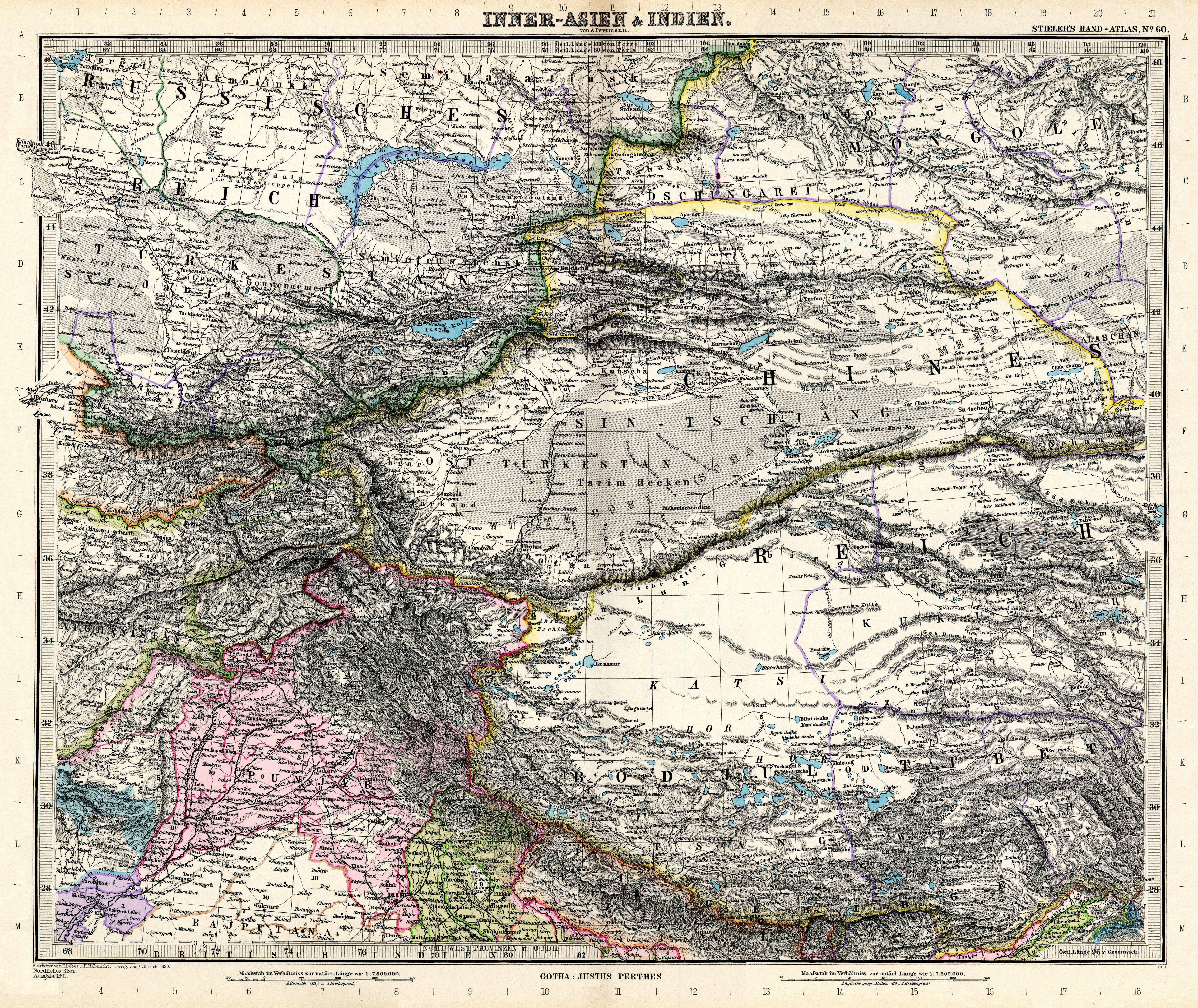 Central Asia & British India/Pakistan.